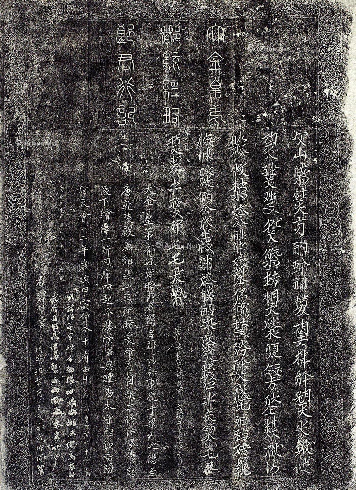 written by huang ying qi and wang gui in A.D. 1134,Writing in Chinese and Khitan small script